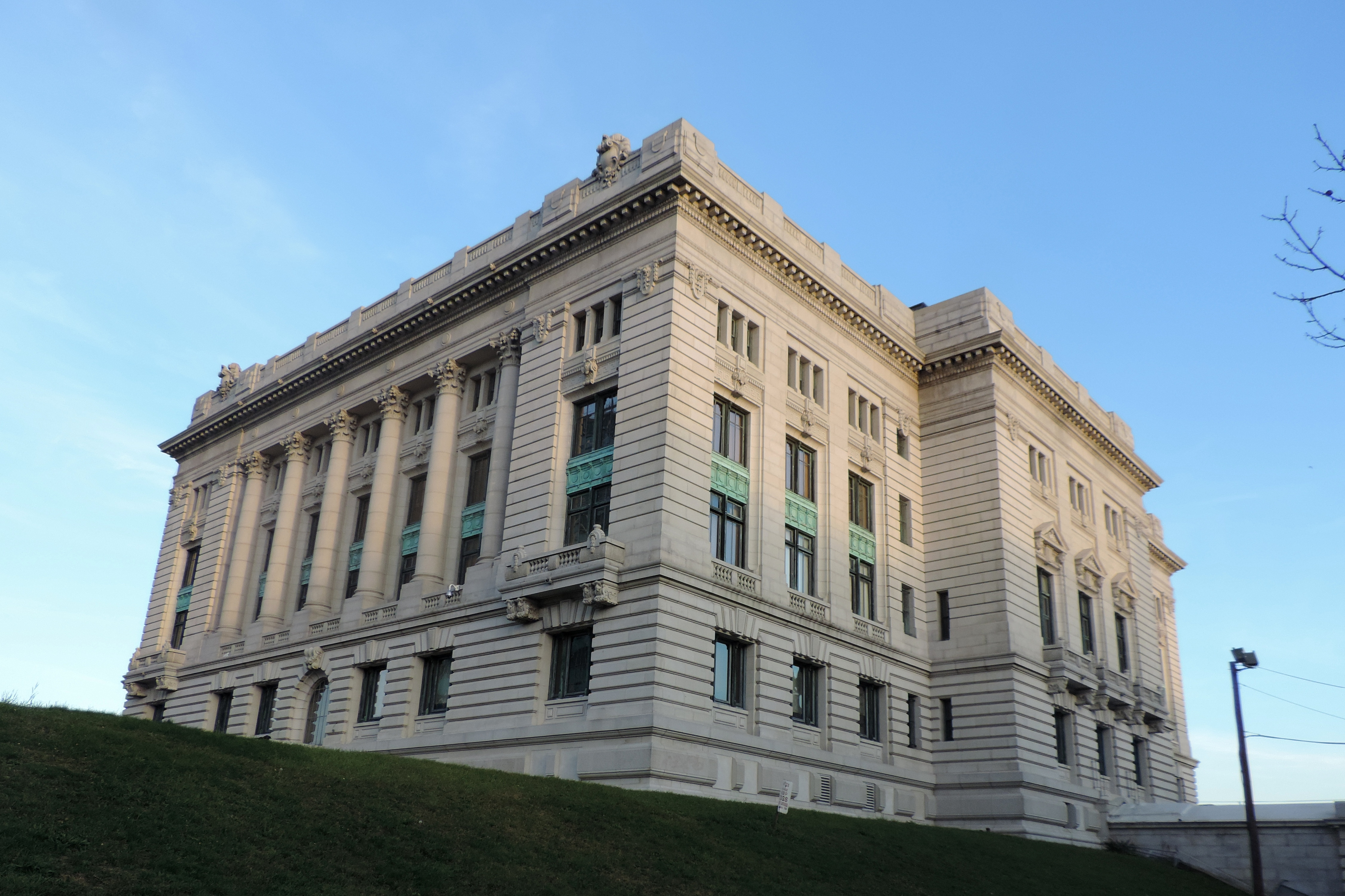 Looking east at Hudson County Courthouse near dusk of a mostly clear day